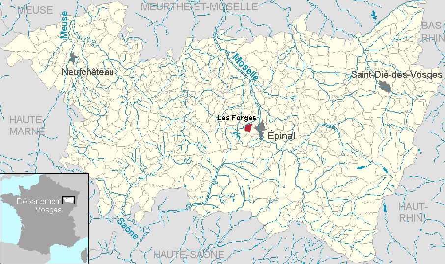 Les Forges in the department of Vosges, Lorraine, France